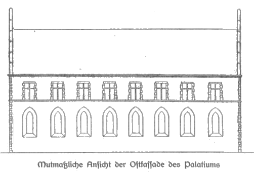 Reconstruction of the eastern front of the former archiepiscopal palace of Bremen, drawn by Ernst Ehrhardt according to the findings during the demolition of the successor building, the Stadthaus